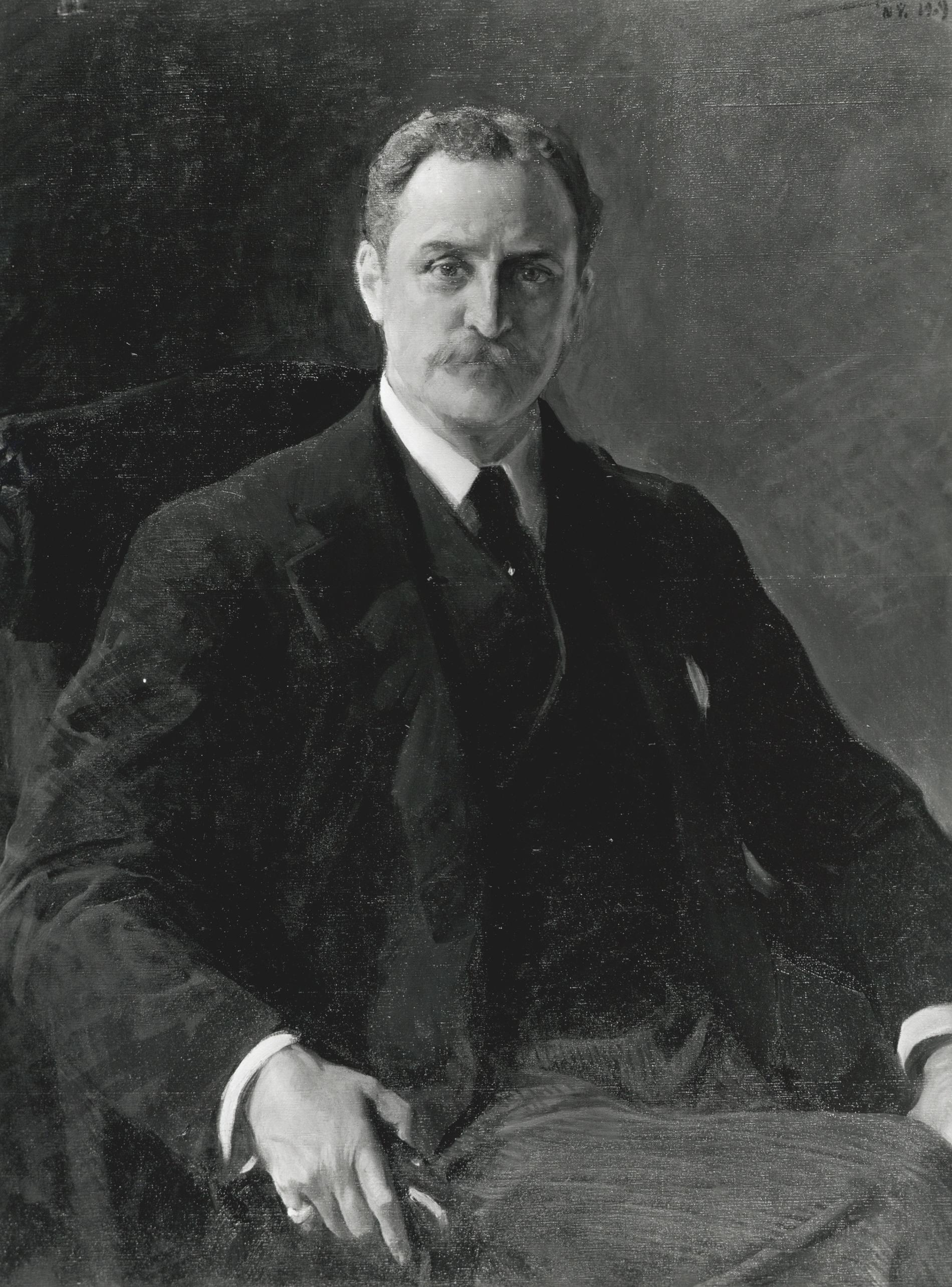 Robert Bacon Artist Joaquín Sorolla y Bastida, 1863 - 1923 Sitter Robert Bacon, 5 Jul 1860 - 29 May 1919 Date 1909 Type Painting Medium Oil on canvas Dimensions 111.5cm x 85.5cm (43 7/8" x 33 11/16"), Sight Credit Line Current Owner: U.S. Department of State Website: Object number 81.110 USDS Data Source Catalog of American Portraits See more items in Catalog of American Portraits